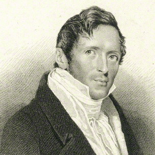 Thomas Stamford Raffles ("Engraved by Thomson, from a Miniature in possession of Mr. Raffles")